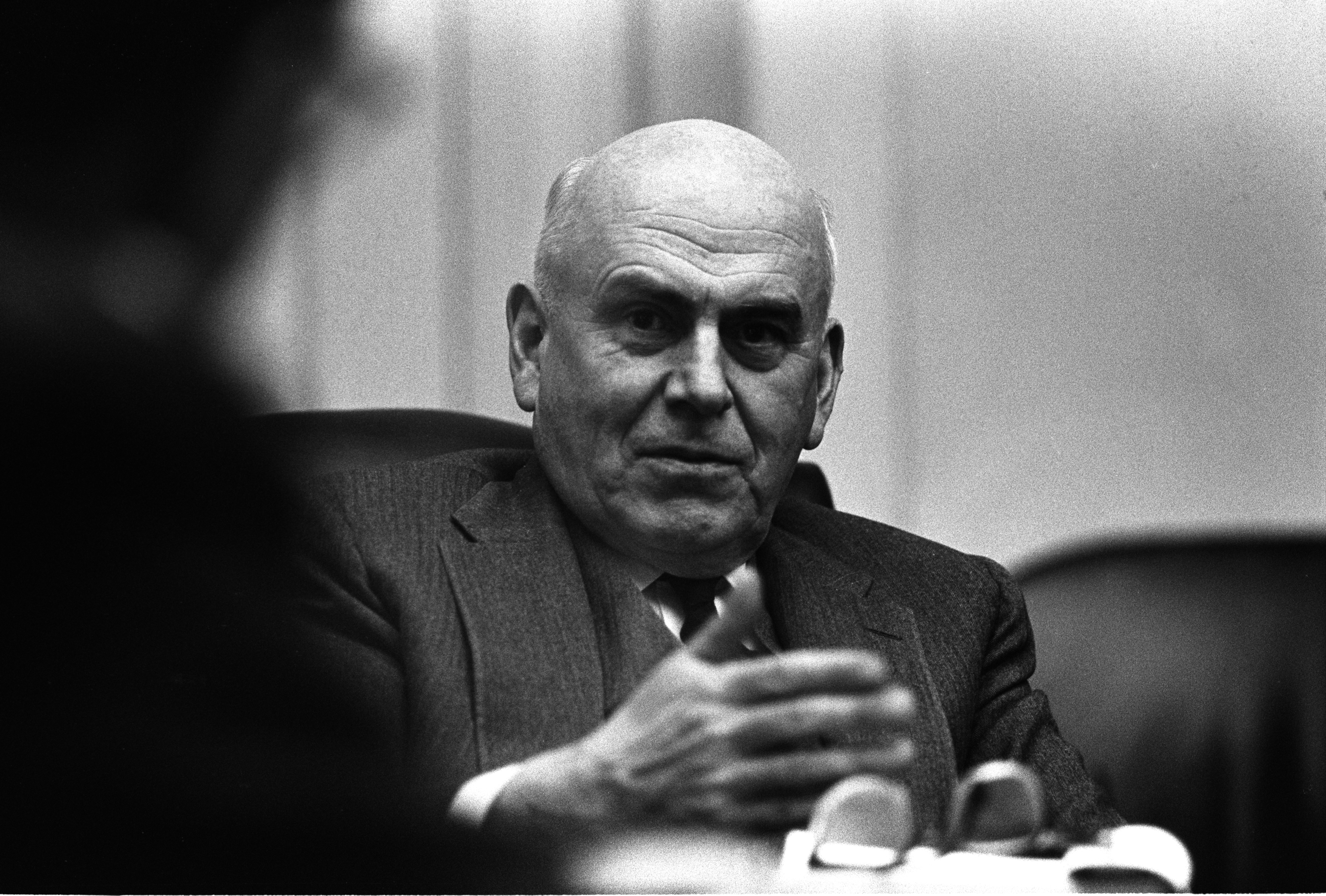 John McCloy of The Wise Men at a meeting in the Cabinet Room